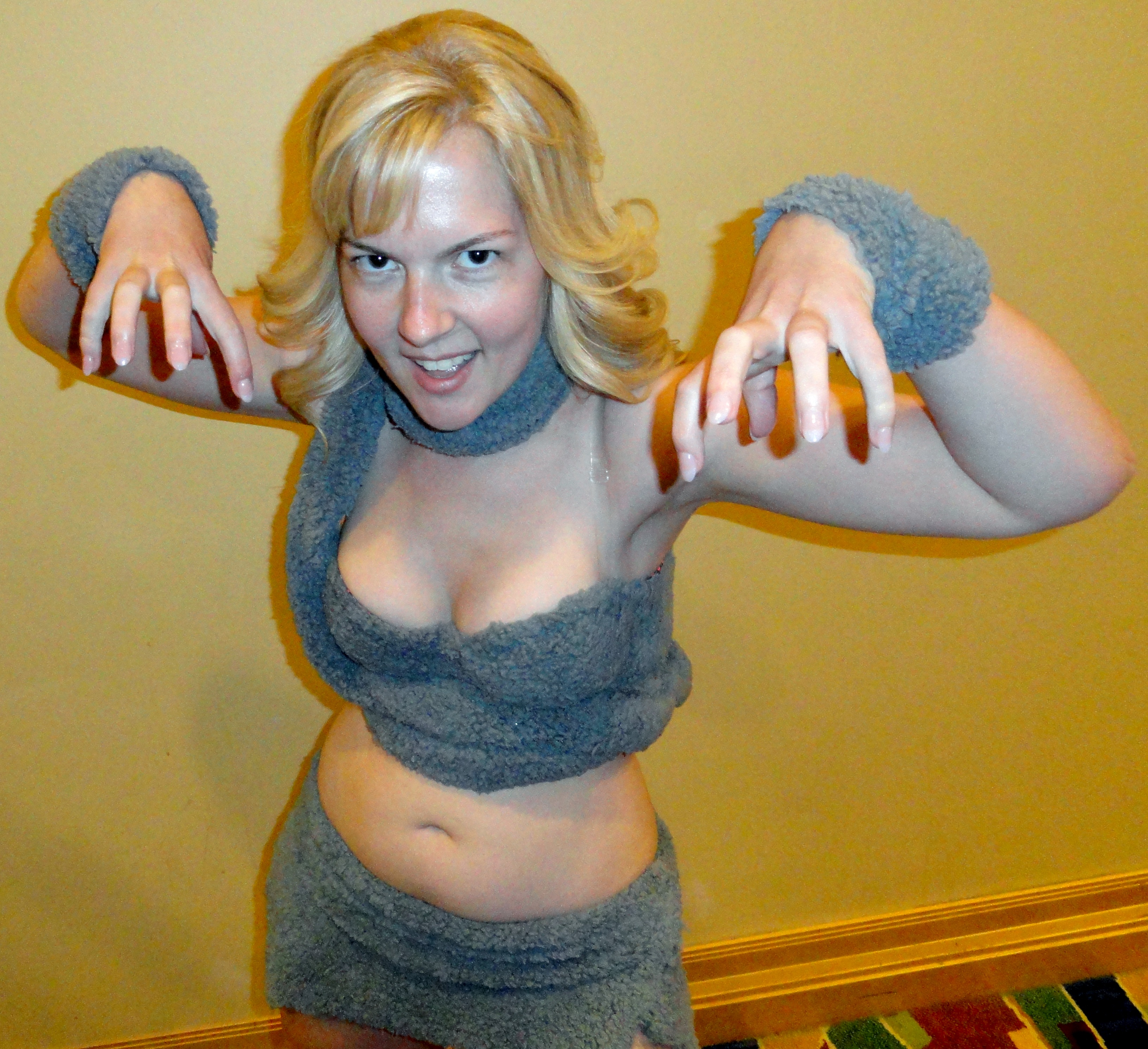 Chrono cosplay at Fanime May 25, 2012.